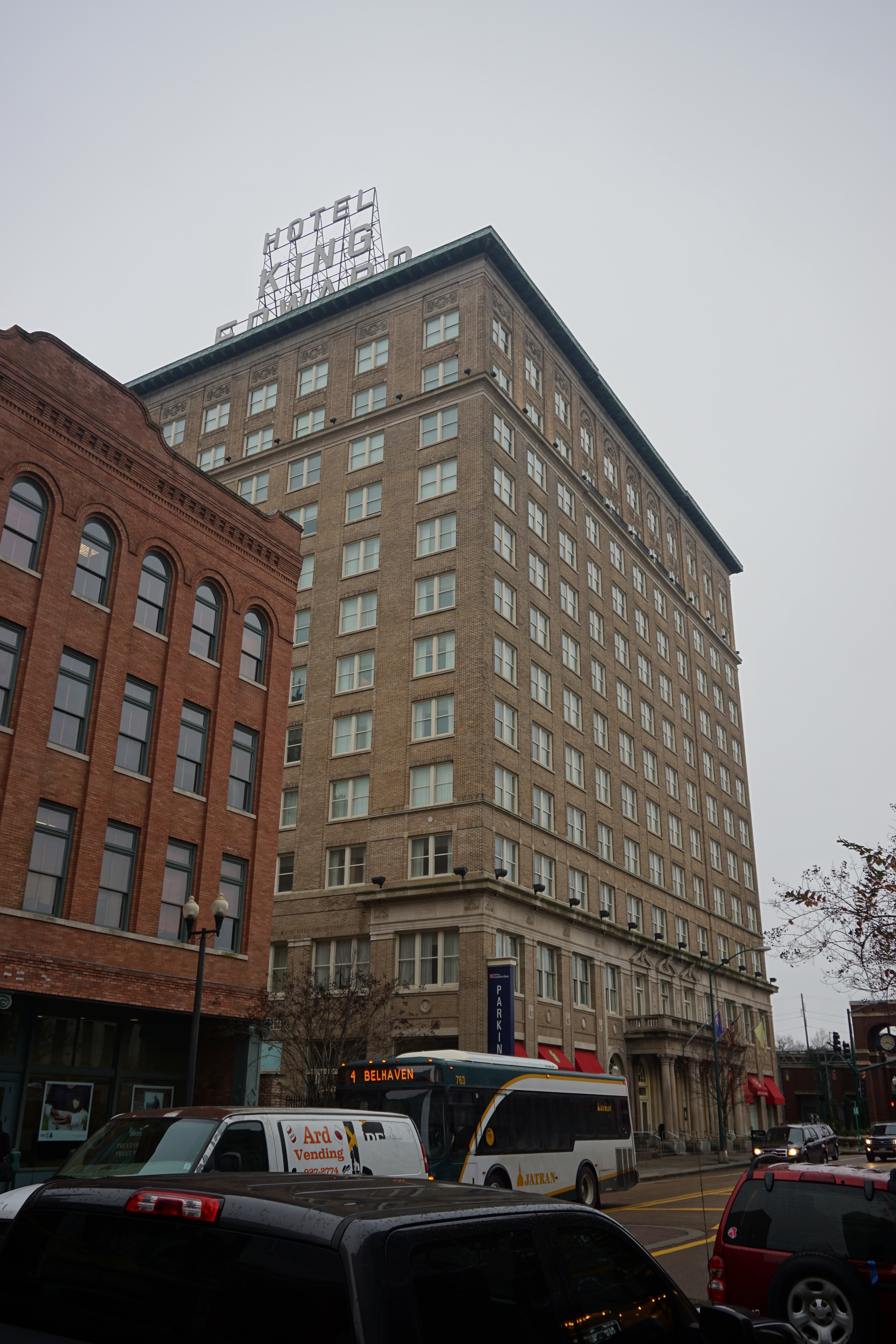 The King Edward Hotel in Jackson, Mississippi (United States).